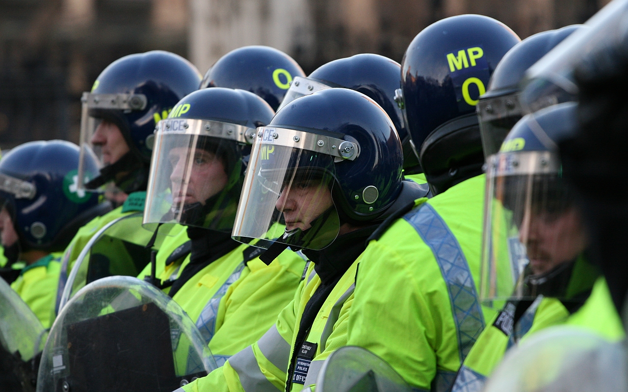 A lot of yellow TSG Police Line Student Protests - Parliament Square, Westminster 2010